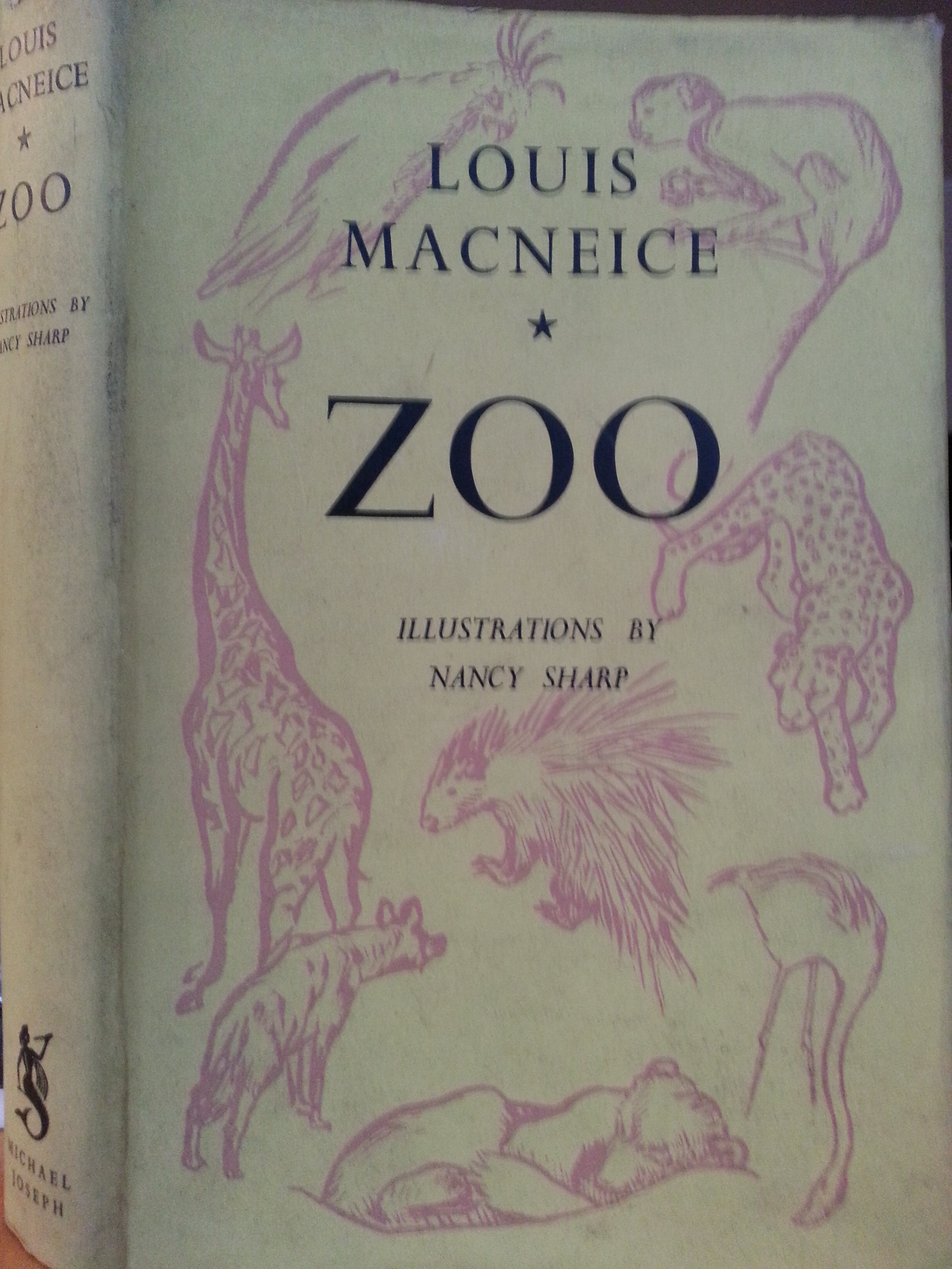 First edition dust jacket of Zoo, a book by Louis MacNeice (1938), illustrations by Nancy Sharp